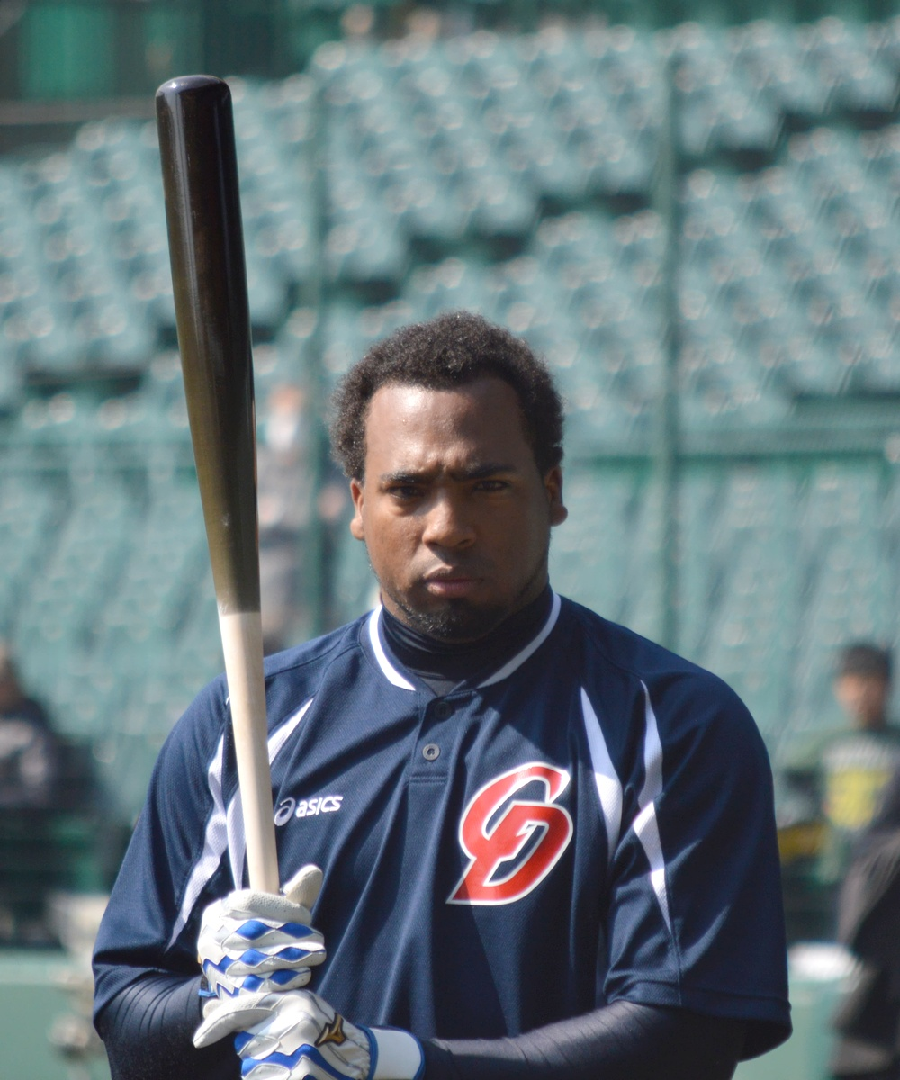 CD-Hector-Luna20130306